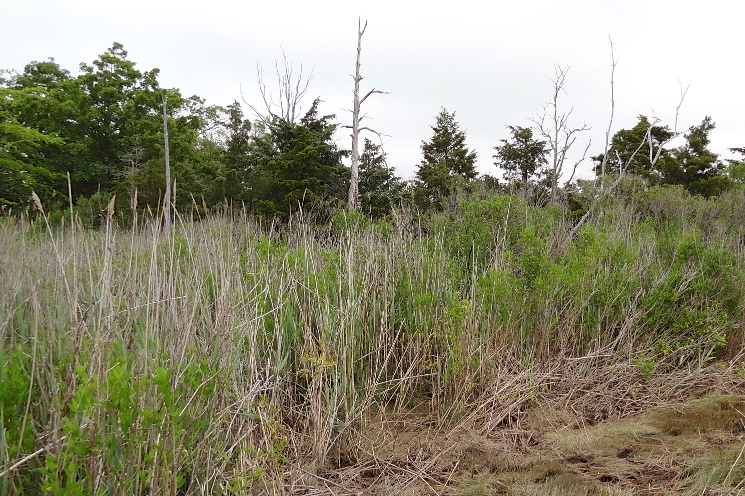 View of forest and marsh at the Cape May National Wildlife Refuge